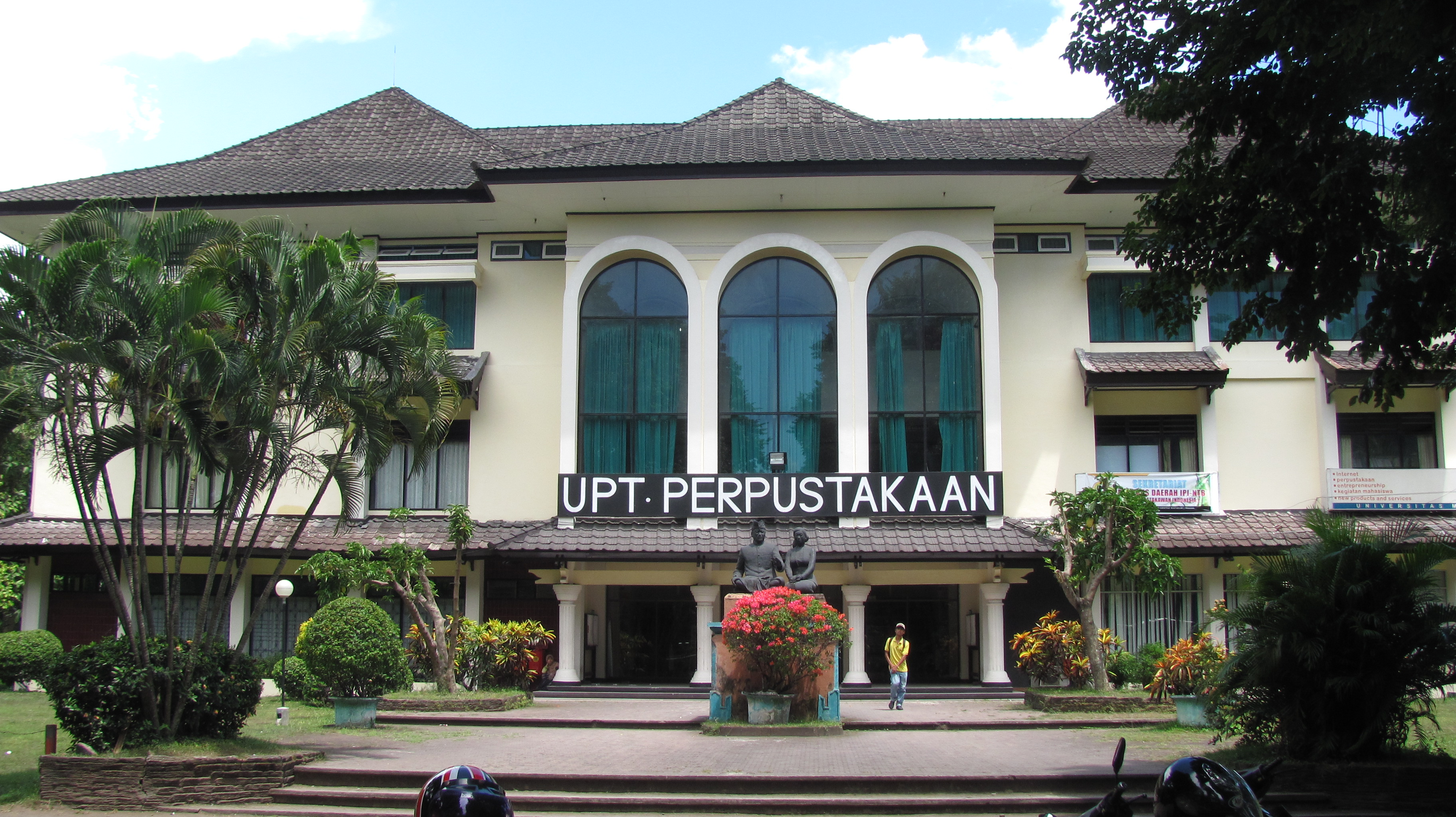 University of Mataram, Lombok, Indonesia